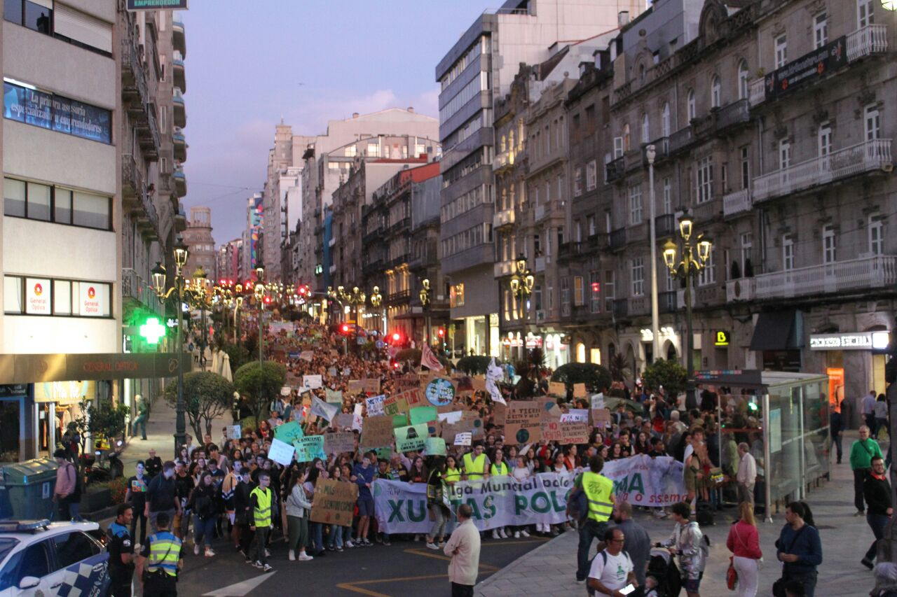 Manifestación huelga mundial por el clima Vigo